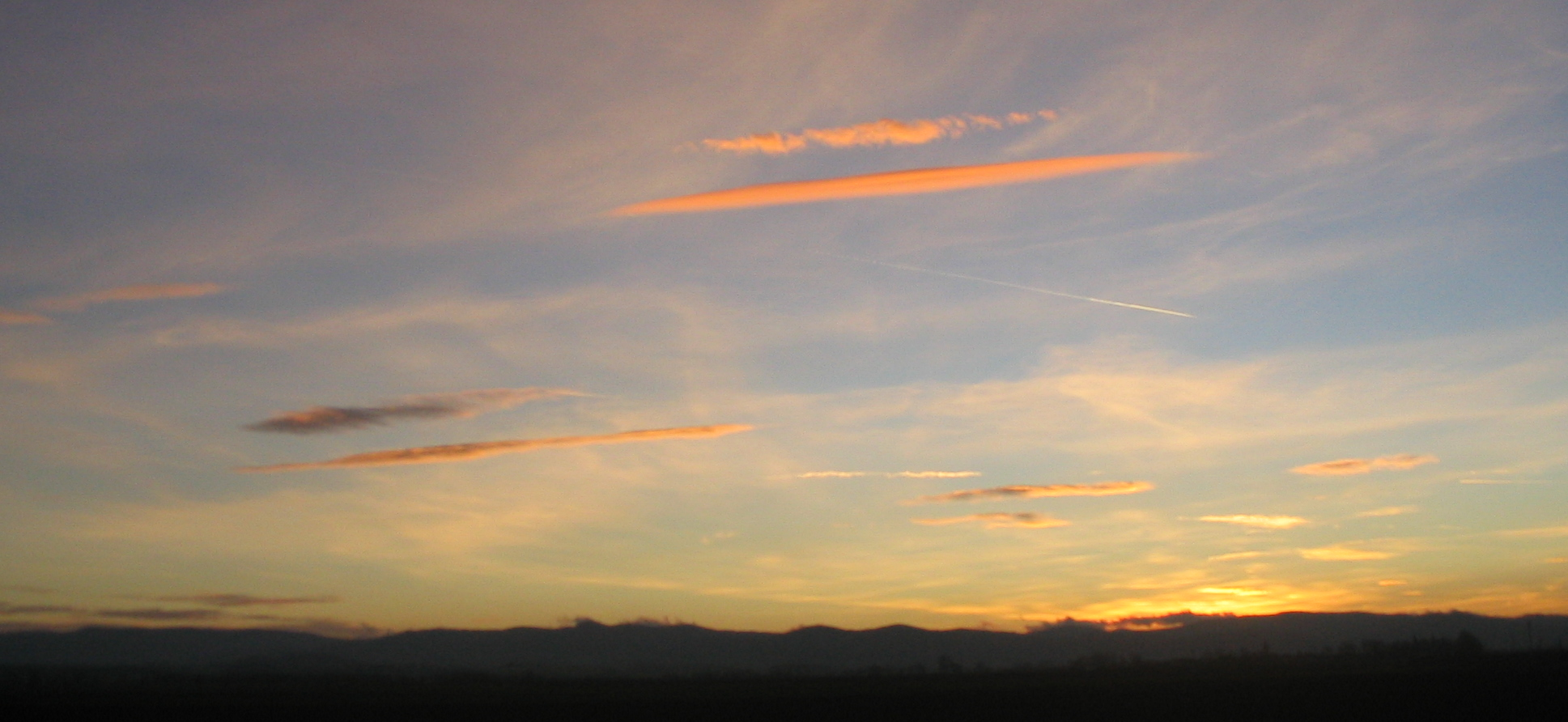 Lee waves Polish Sudety